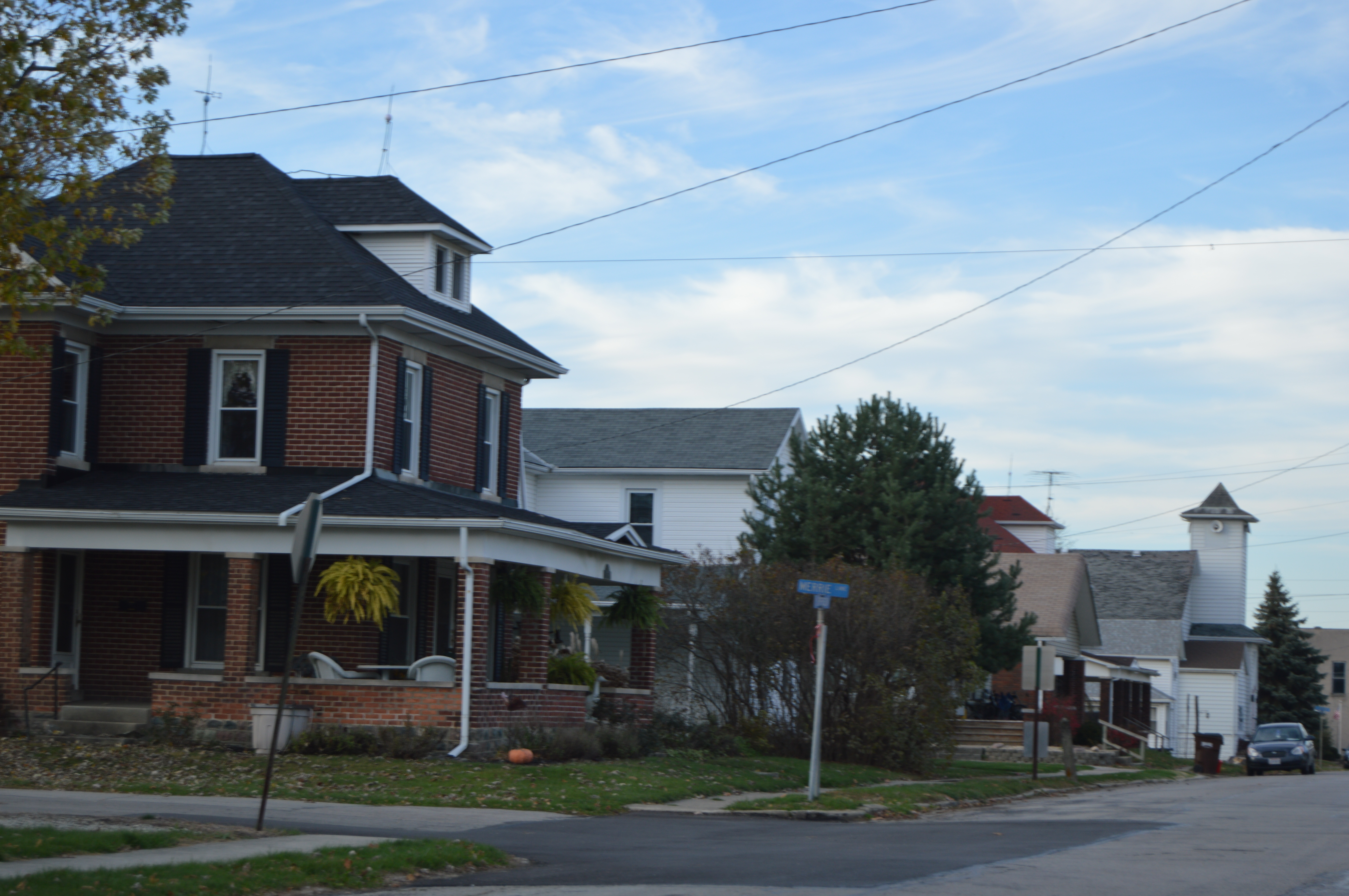 Looking north from the intersection of Jefferson Street (the community's main thoroughfare) and Merrie Lane in Pitsburg, Ohio, United States.